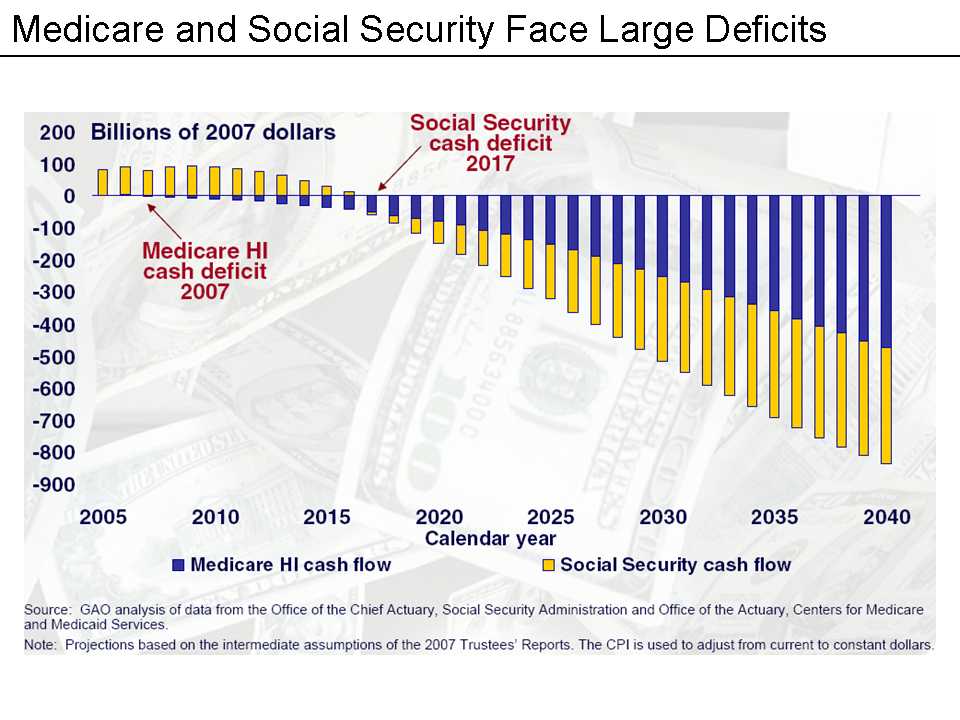 Medicare & Social Security Deficits Chart Payroll tax revenues dedicated to these programs are not sufficient to cover their costs. Medicare HI refers to Hospital Insurance (Part A). Other parts of Medicare also are costly. Note that the Social Security surplus tax receipts reduce the "total" deficit figure often reported in the media. If we go from a $200 billion Social Security surplus today to a $200 billion deficit in the future, this is a $400 billion increase to the deficit often reported in the media.